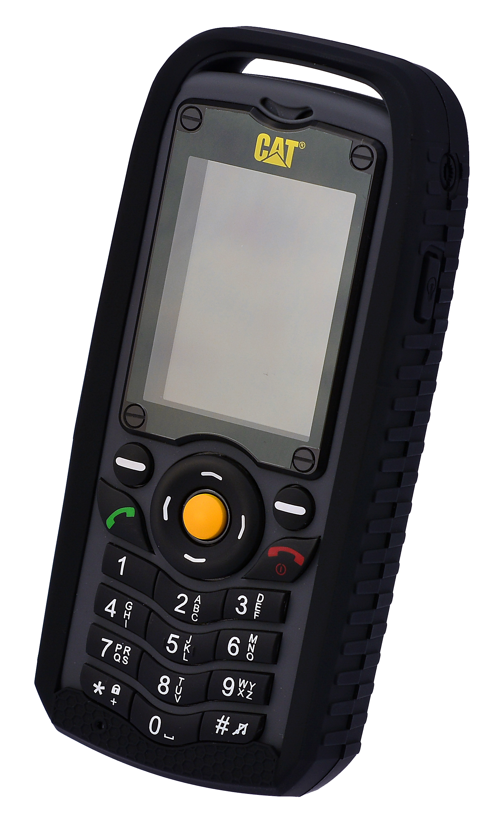 The CAT B25, a rugged mobile phone manufactured by Bullitt Group with the Caterpillar license, released in 2013.